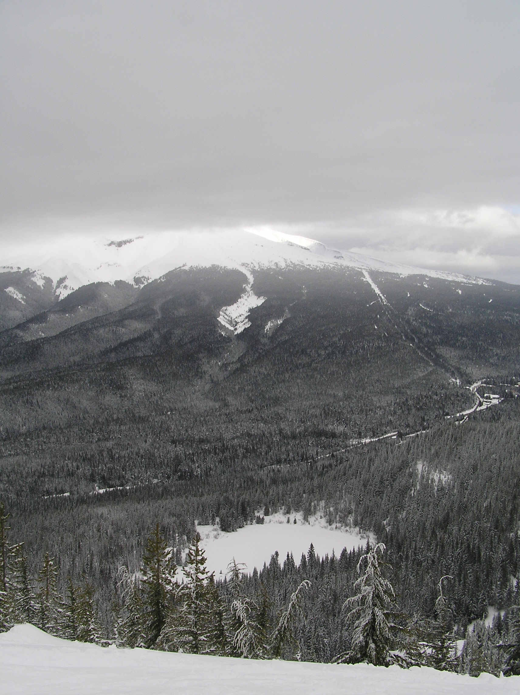 Oregon's Mirror Lake, covered in ice and snow, with Mount Hood in the background